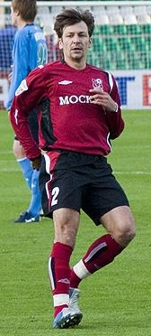 Dmitry Godunok in action for FC Moscow